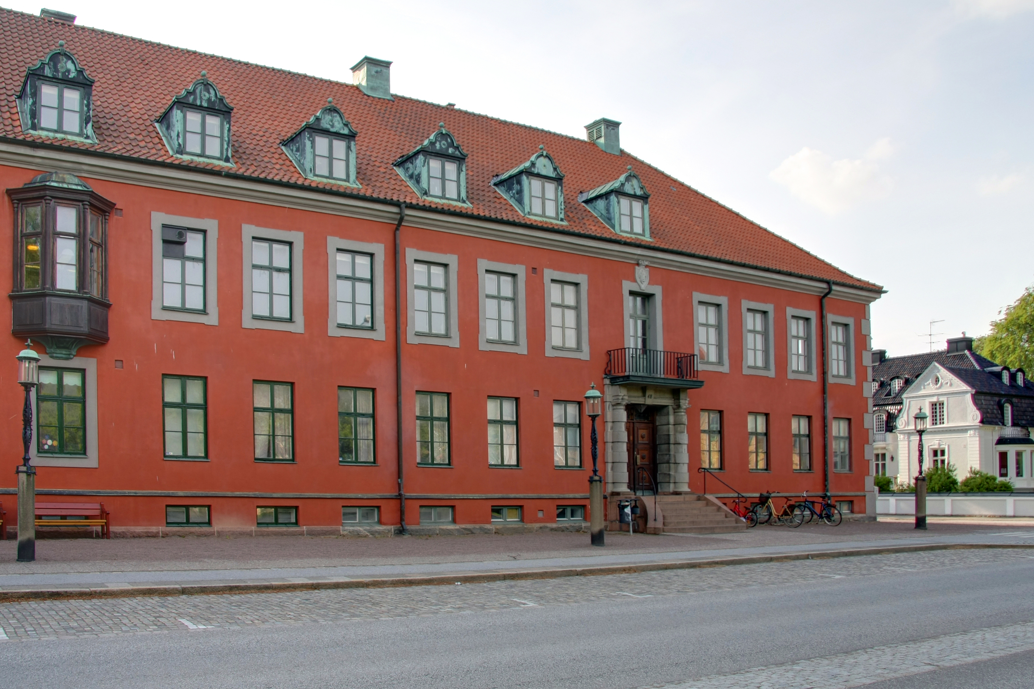 The old town hall of Eslöv, Sweden